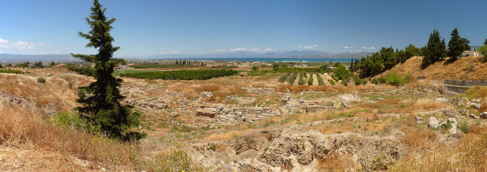 Ancient Corinth - Theatre